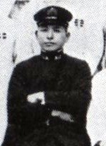 Shibazaki Keiji is an Imperial Japanese Navy Vice Admiral